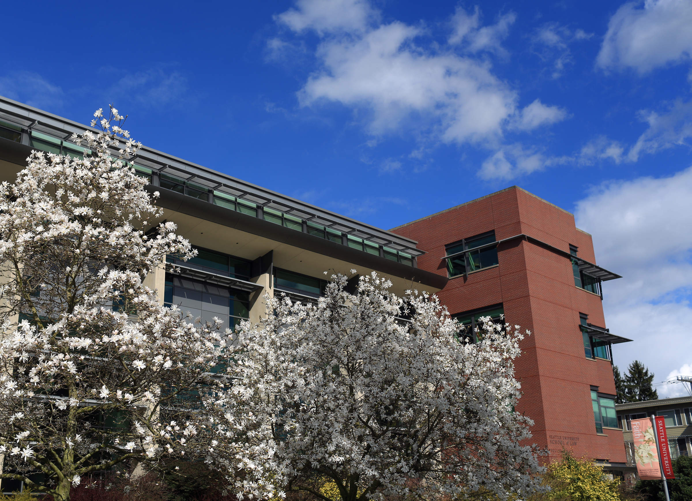 Sullivan Hall